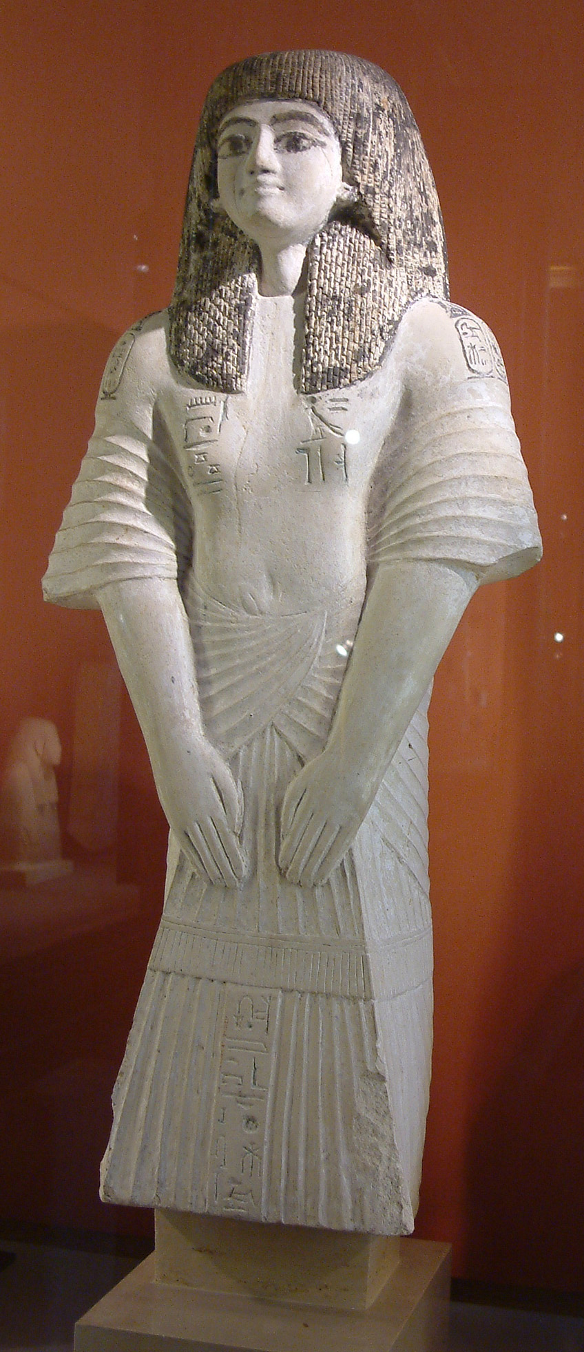 Statue of Rames, who was scribe of the community of artisans who built the royal tombs under the reign of Rameses II. Rames' shoulders bear the hieroglyphic cartouches of Pharaohs Rameses II (d. 1213 BC), Thutmose IV (d. 1391 BC) and Horemheb (d. 1292). Painted limestone, New Kingdom Period, found in Deir al-Madinah.